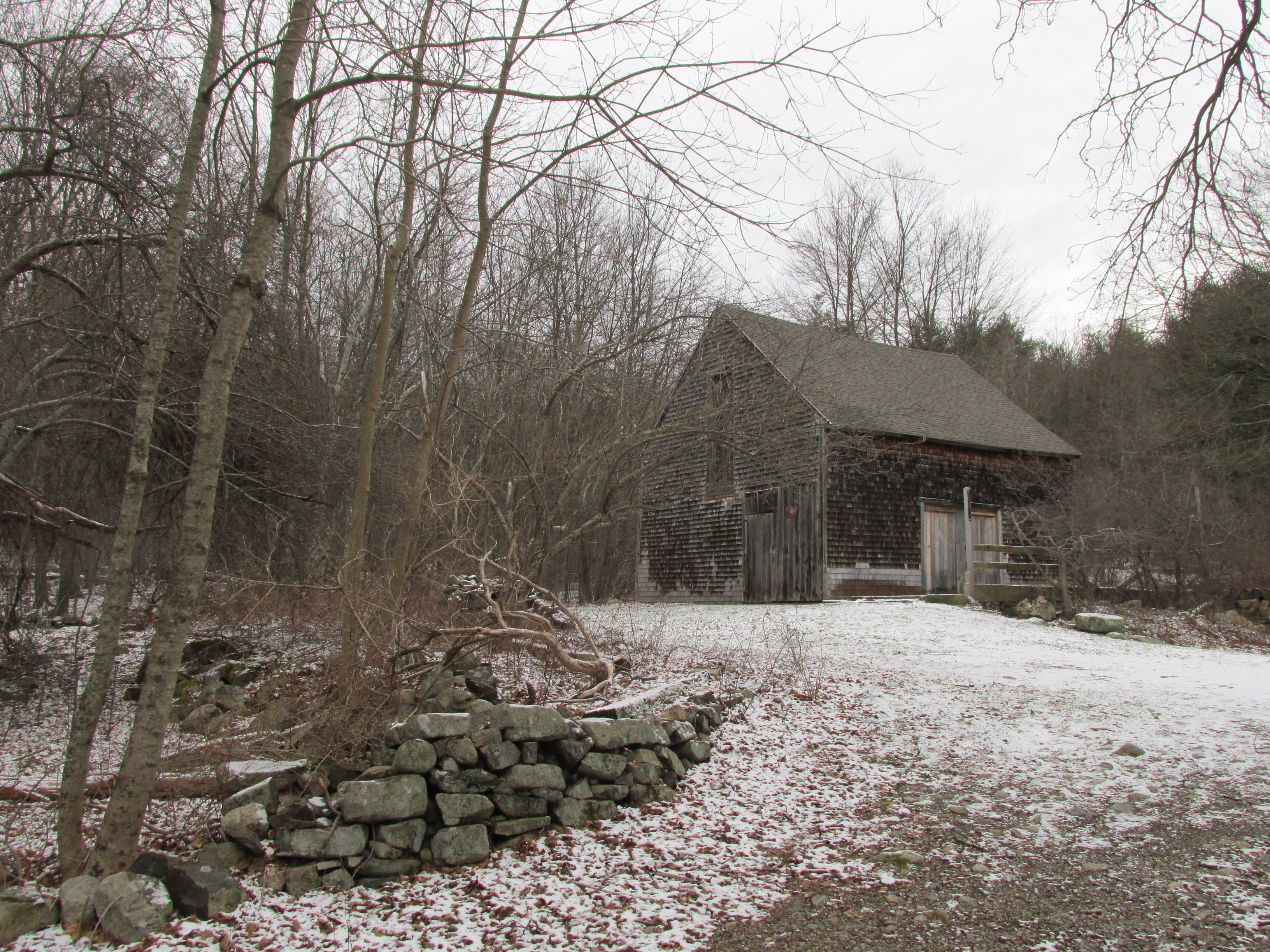 Billings Barn, Moose Hill Wildlife Sanctuary, Sharon Massachusetts